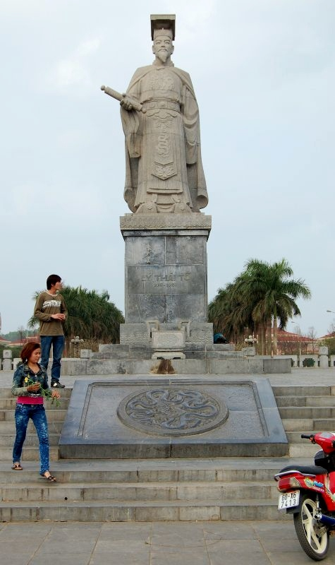 Bac Ninh - statue of Ly Thai To